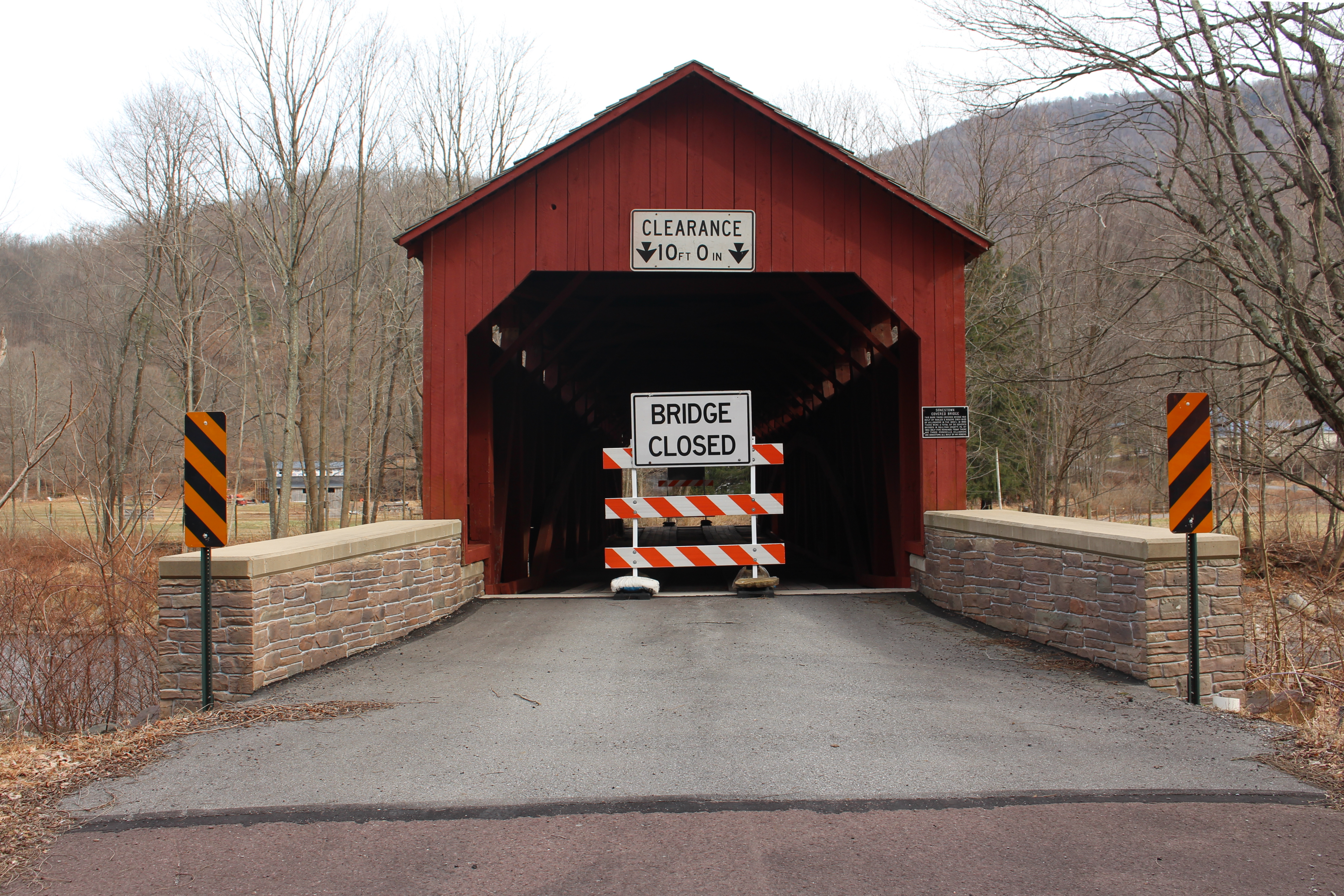 West portal of Sonestown Covered Bridge over Muncy Creek in Davidson Township, Sullivan County, Pennsylvania in the United States. Built 1850, on the National Register of Historic Places.